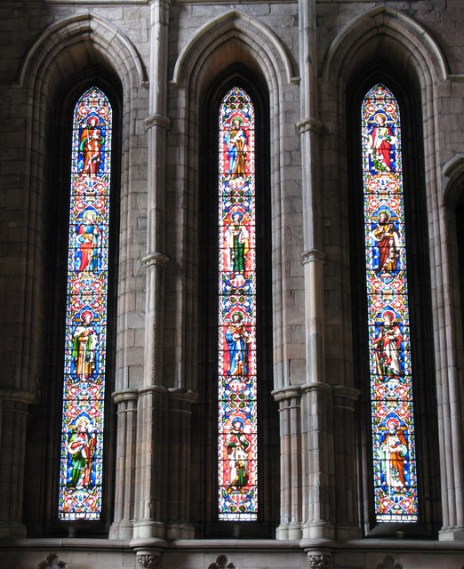 Lancet windows, North Transept, Hexham Abbey. The glass in these windows was designed by W B Scott and made by Wailes of Gateshead in 1873. These (lower) lights depict the twelve apostles with their emblems. {Source: Hexham Abbey Guide, p21.} See 732100.